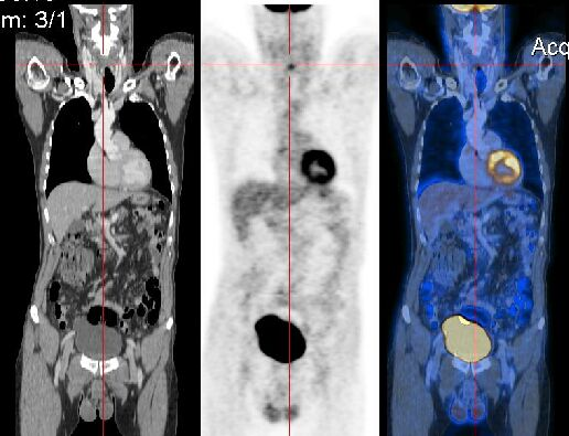 CT and PET images overlaid